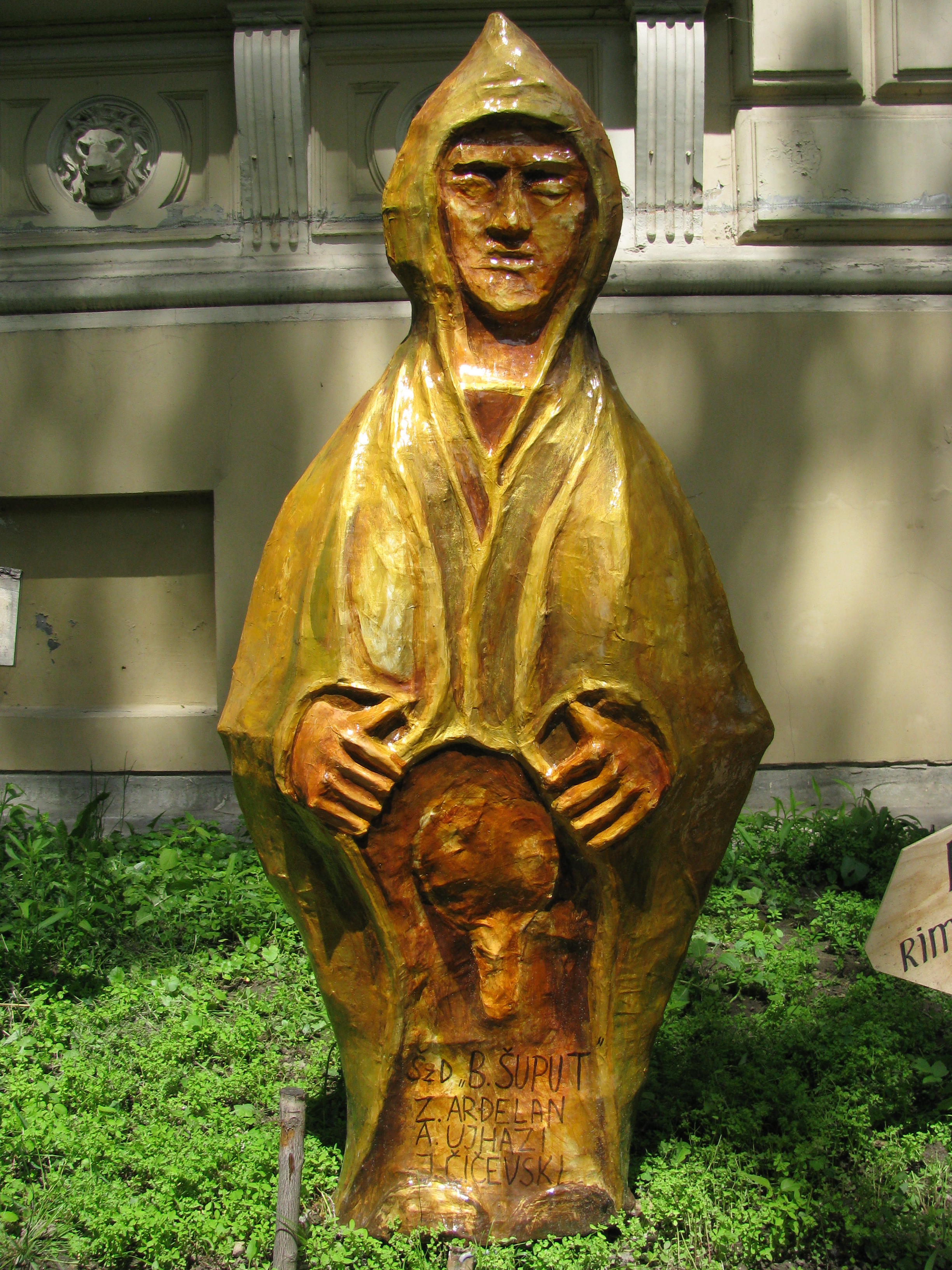 Paper mache sculpture of god Priapus - scarecrow in the Archaeobotanical Garden of the Museum of Vojvodina Srpski (latinica): Strašilo u Arheobotaničkoj bašti Muzeja Vojvodine - skulptura boga Prijapa